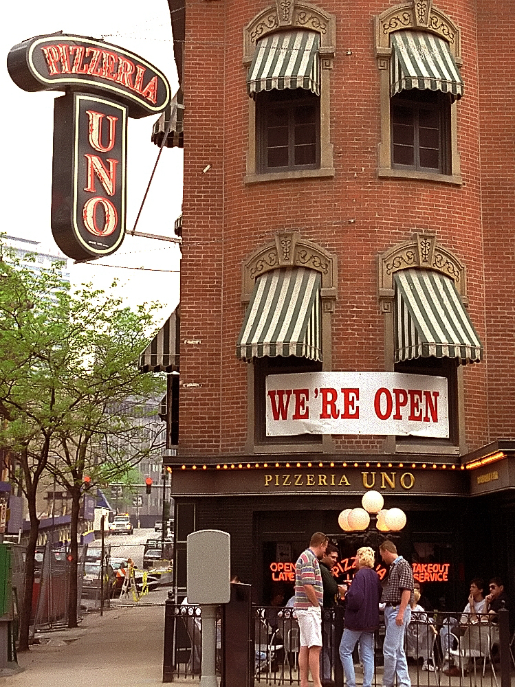 Chicago - Pizzeria Uno